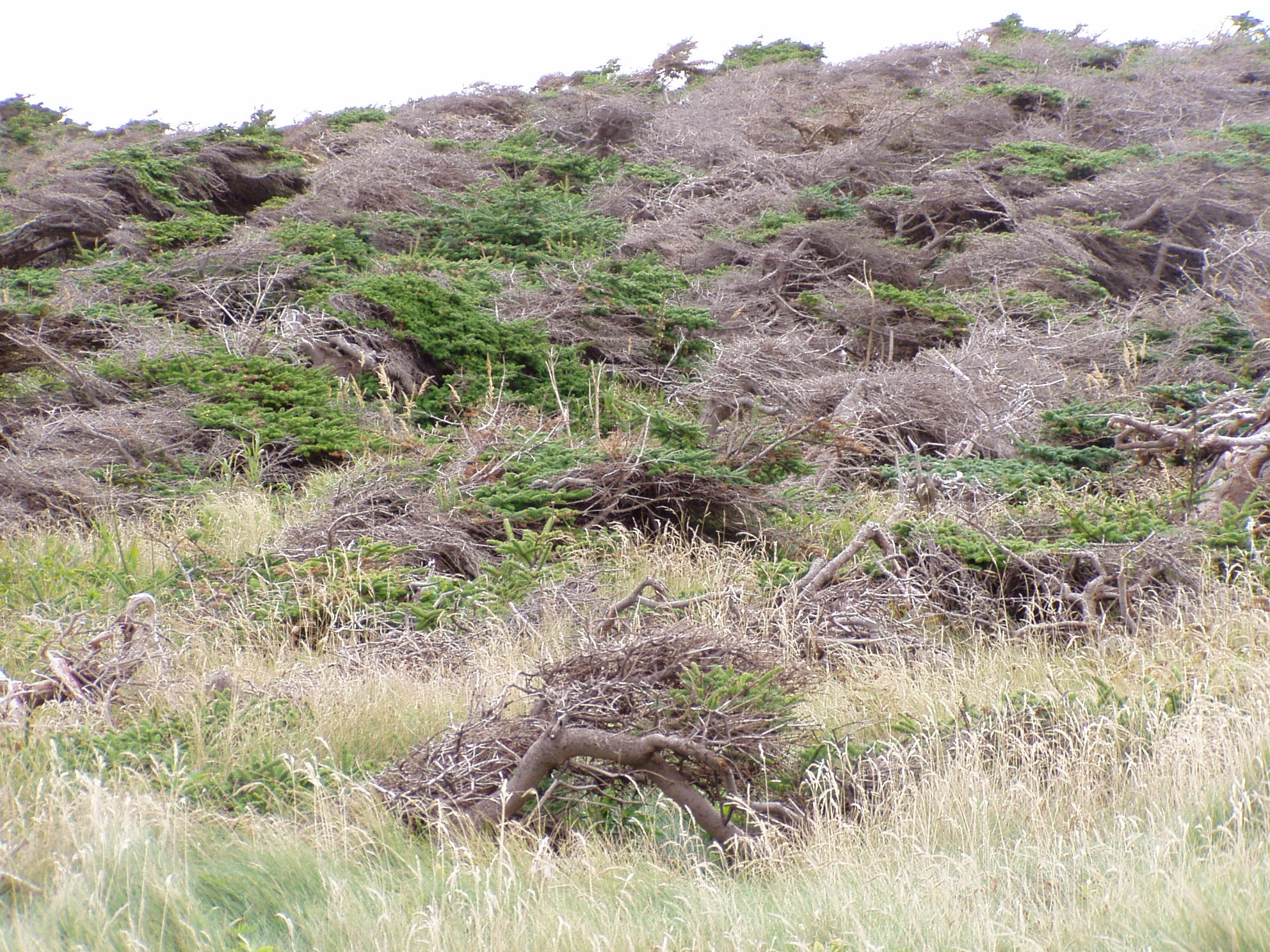 Description: Scrubby forest regenerating after fire Location: Brion Island, Magdalen Islands, Québec, Canada Date: 2006-08-28 Source: picture taken by Danielle Langlois